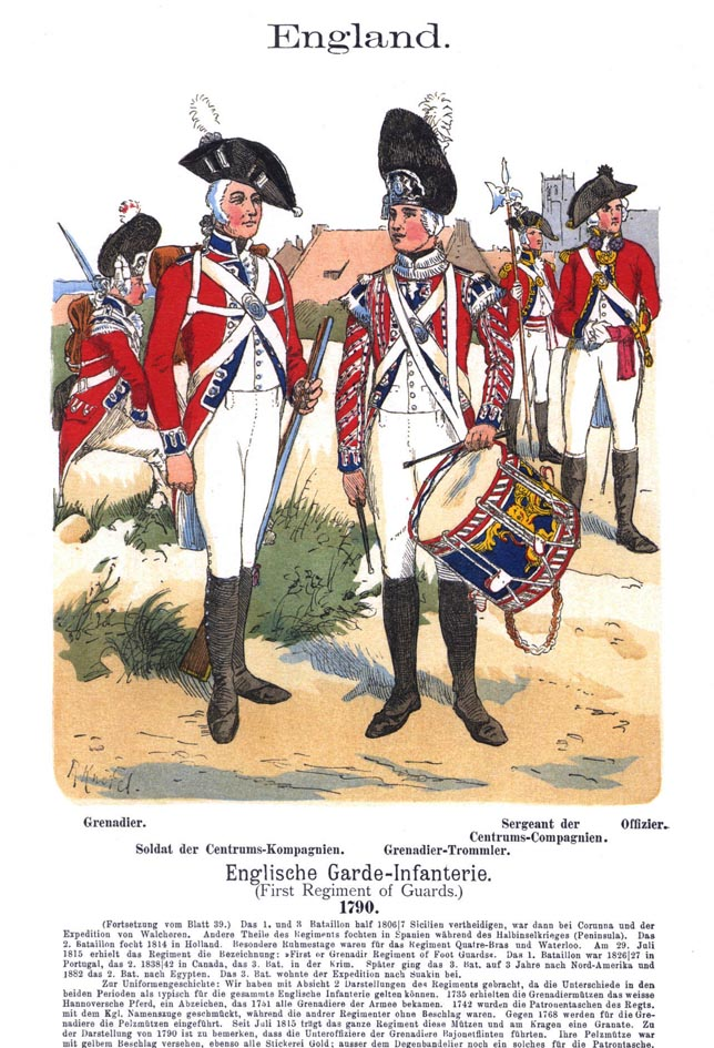 England. Englische Garde-Infanterie. 1790